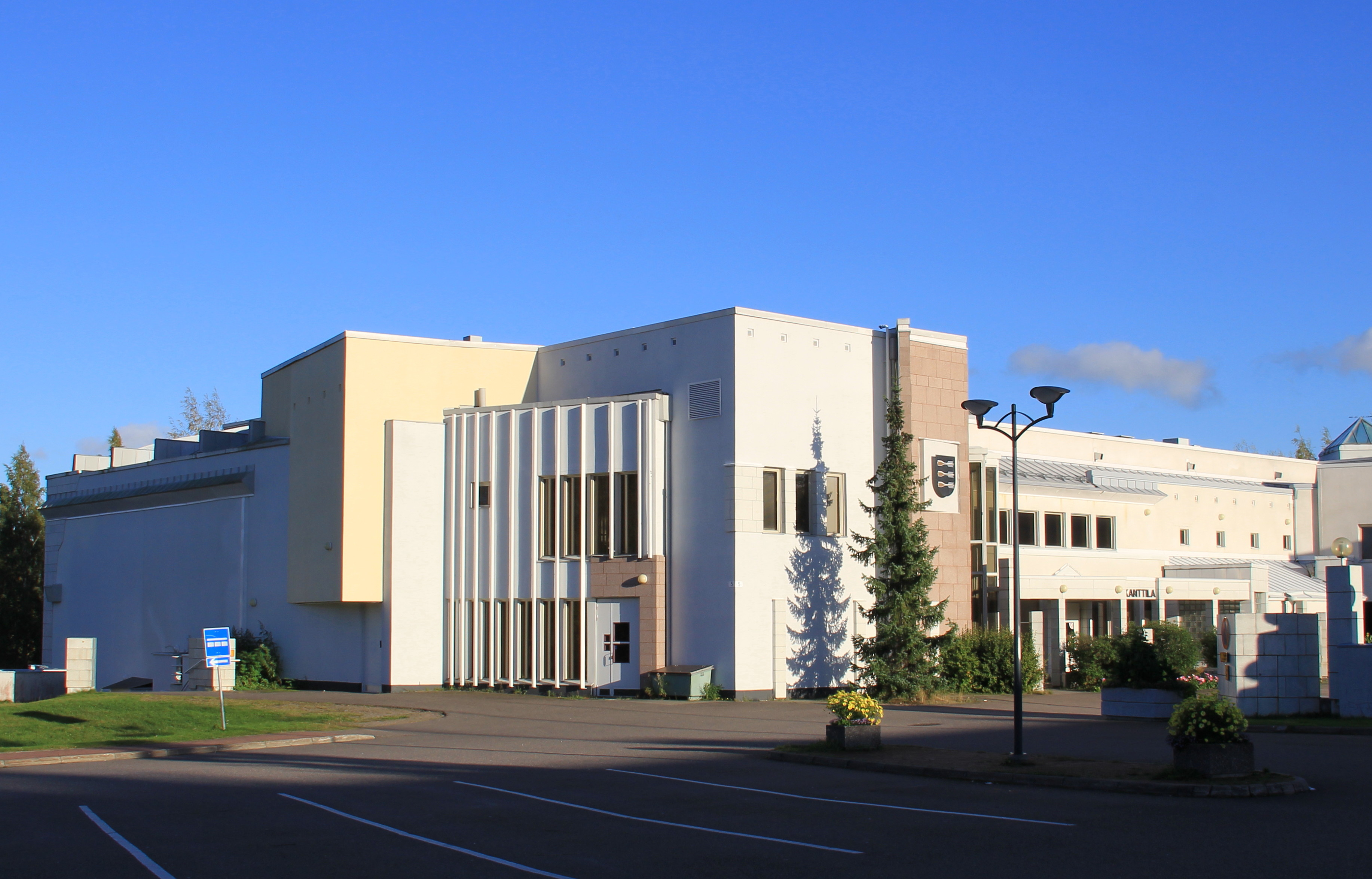 Kattila hall, Naarajärvi, Pieksämäki, Finland. - Kanttila hall (foreground) is assebly room of Pieksämäki city council. - Completed as town hall of Pieksämäki rural municipality in 1988, architect Jouni Koiso-Kanttila. Serves nowadays as office building and library of Pieksämäki town.